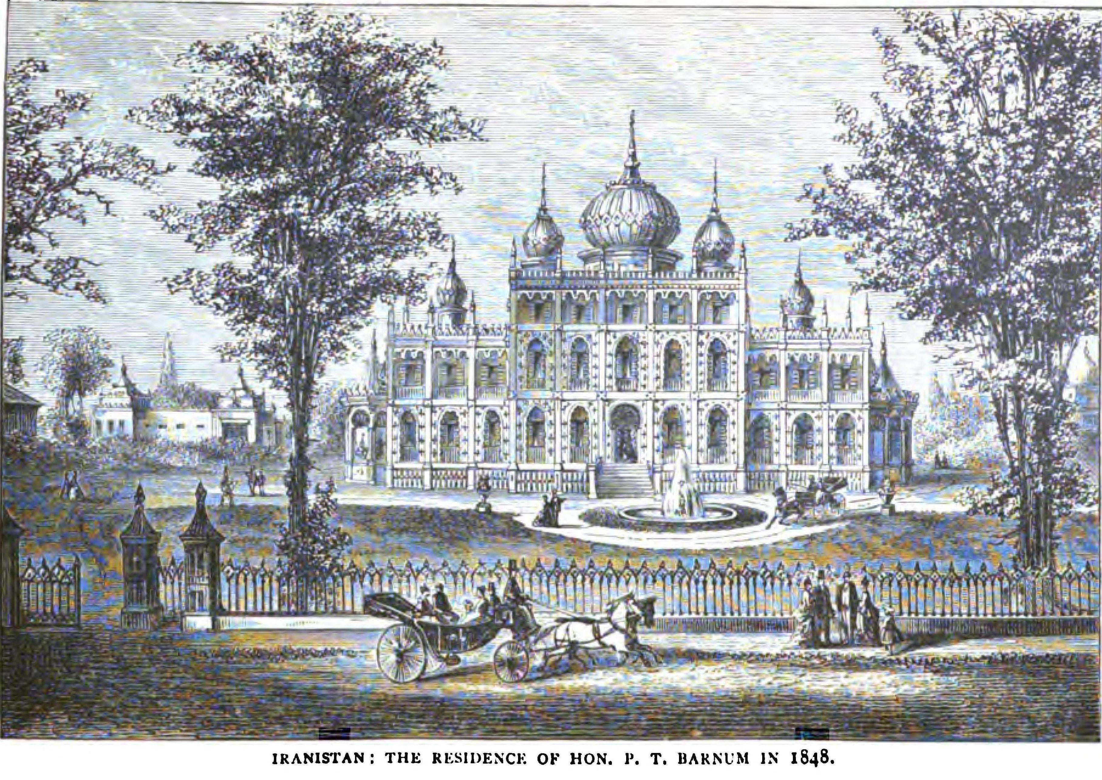 Book engraving of Iranistan, P.T. Barnum's residence in Bridgeport, Connecticut in 1848